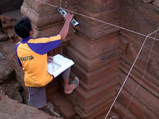 Excavation on the Tondowongso site near Kediri, East Java, Indonesia